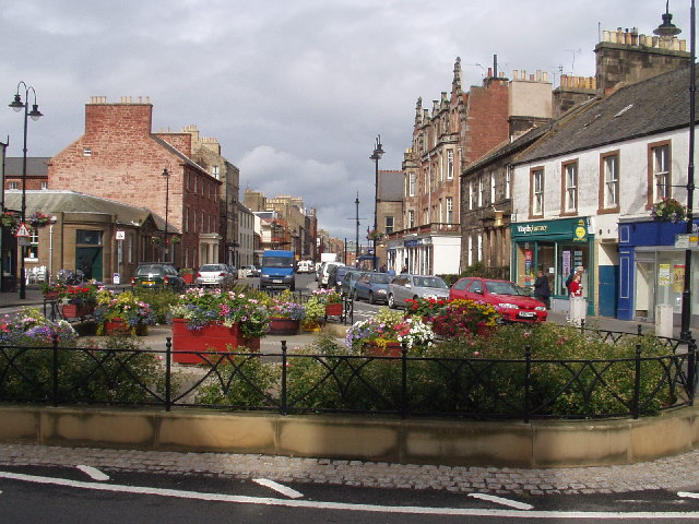 Centre of Dunbar.